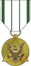 Army Commander's Award of Public Service medal